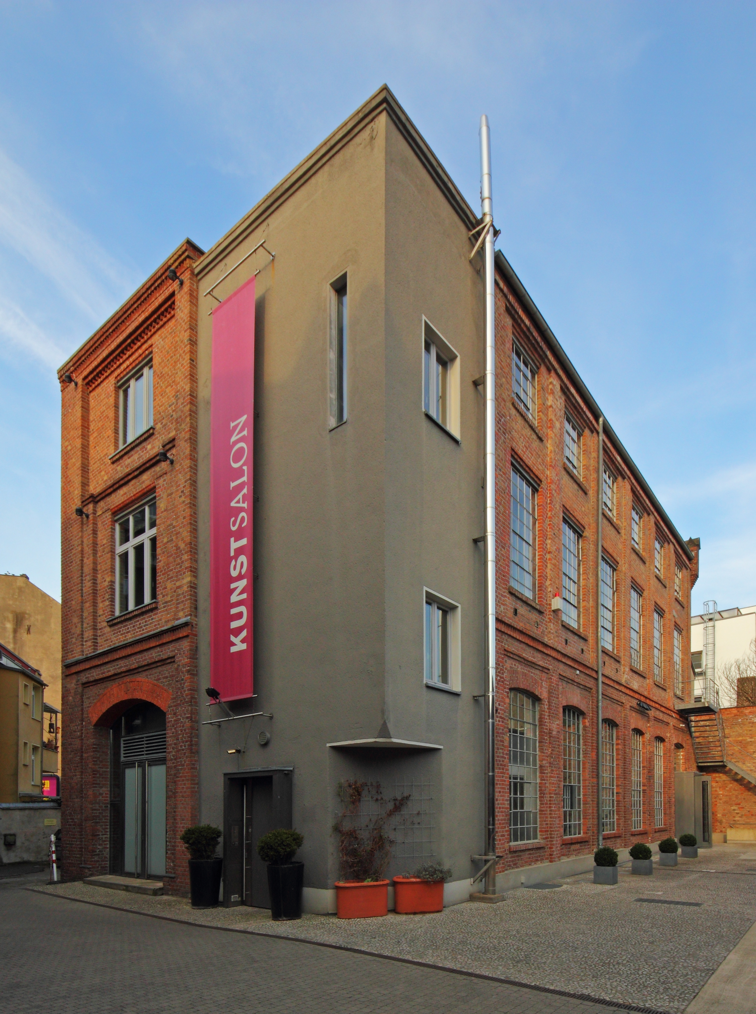 Köln-Raderberg. Former factory building, now Kunstsalon Köln.